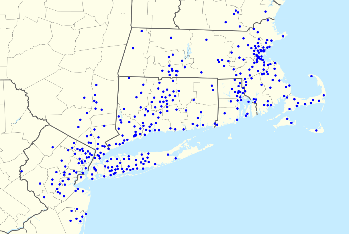 Footprint of Stop & Shop stores within the United States. Zip codes with more than one branch have progressively larger points.